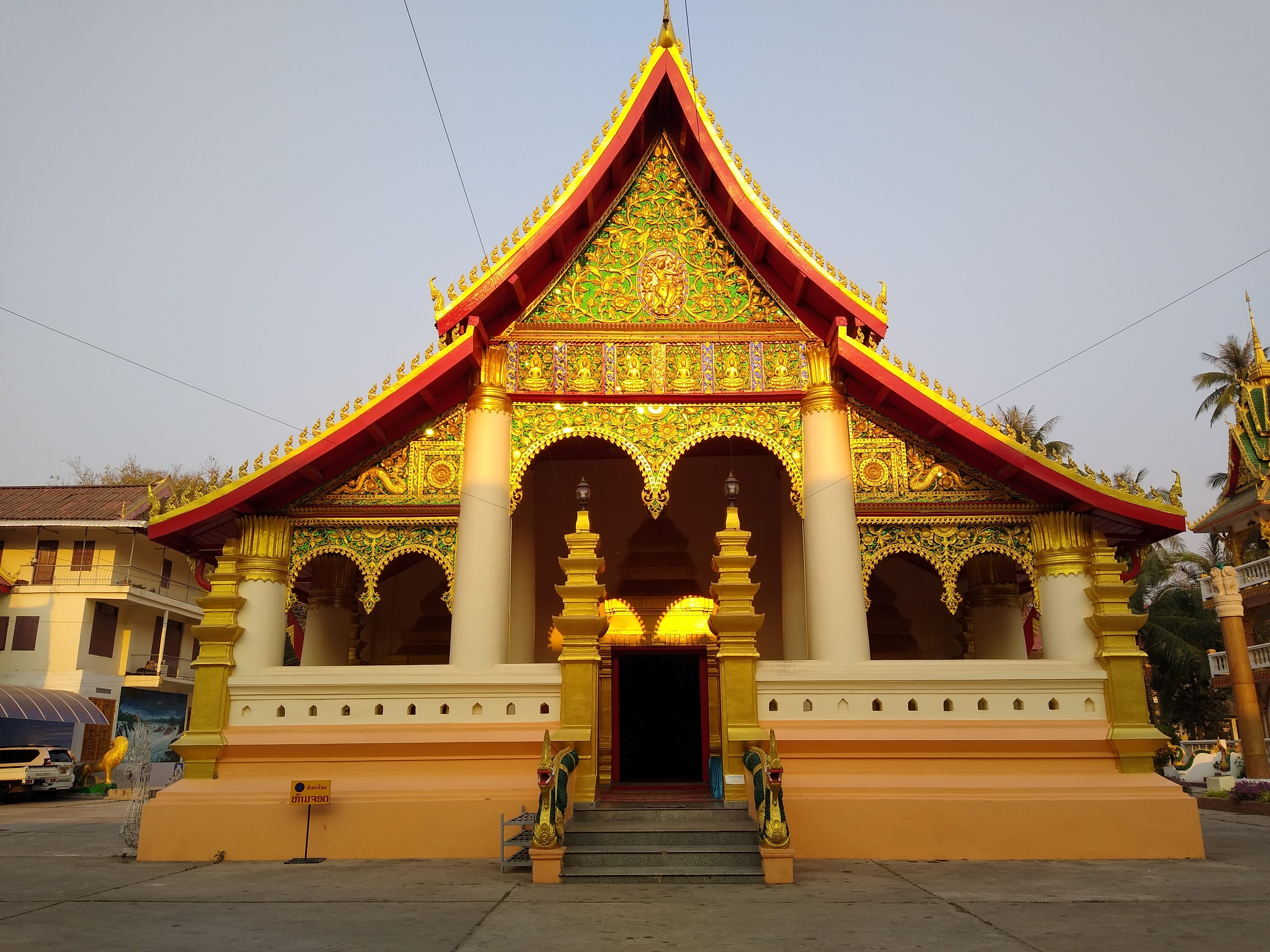 Ong Tu Temple, Vientiane